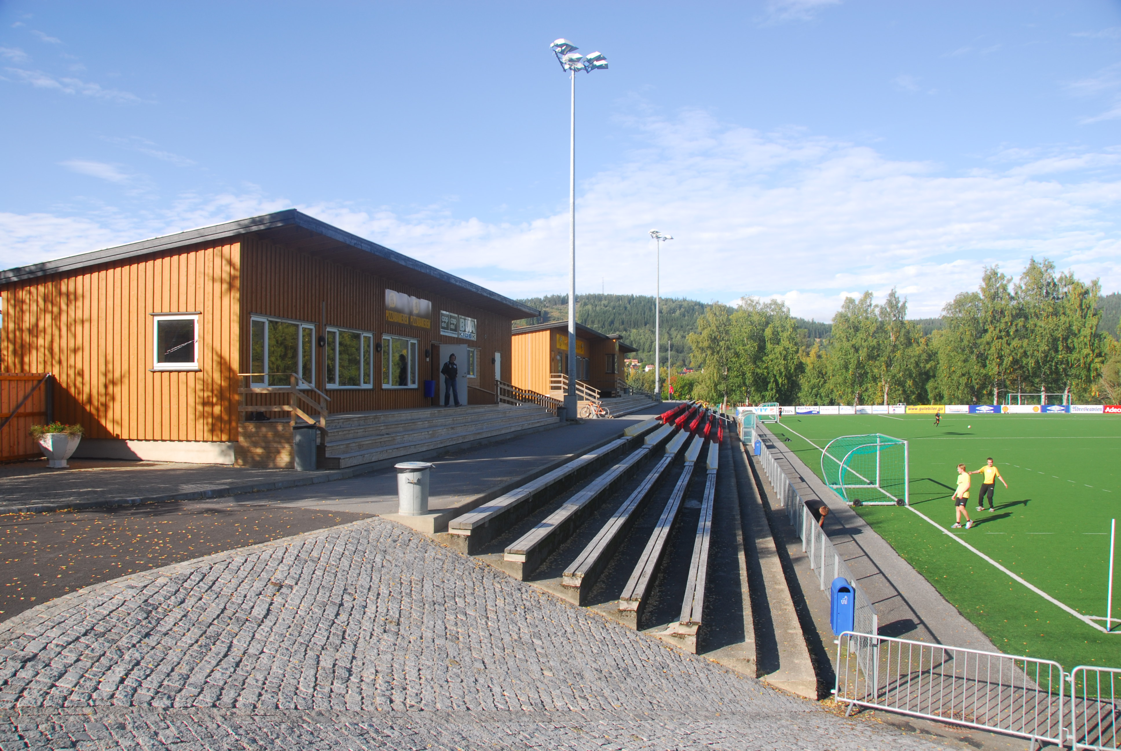 Gudlbergaunet stadion, the home ground of Steinkjer FK in Steinkjer, Norway